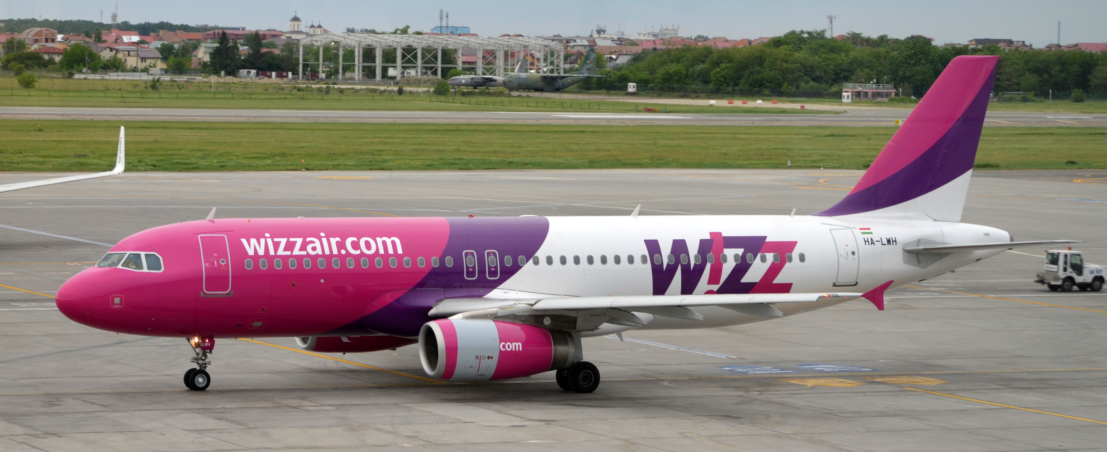 Airbus A320-232 (Wizzair HA-LWH), at Bucharest Otopeni Airport